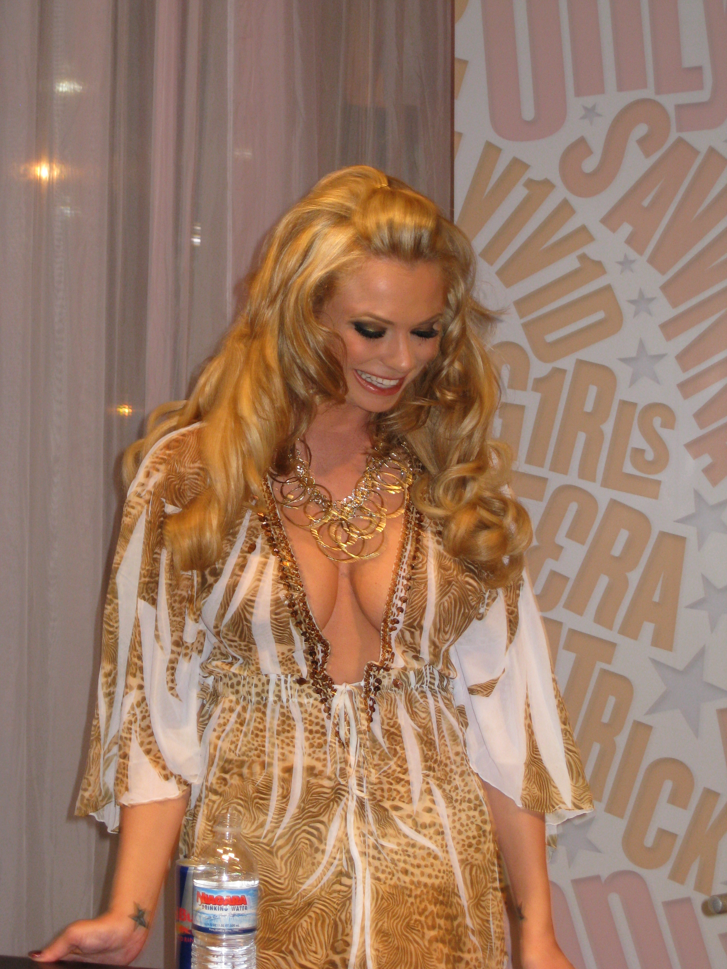 Briana Banks at the 2008 Adult Entertainment Expo